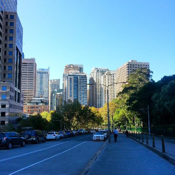 The view north from near Central station towards that section of the Sydney CBD that's sometimes called Thaitown.